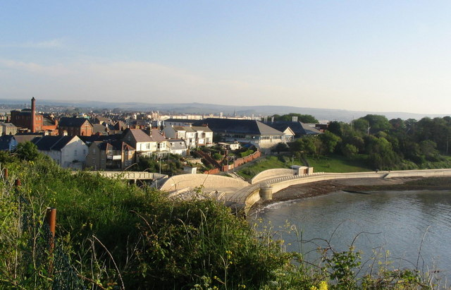 Newton's Cove, Weymouth A view of the recently developed shoreline at Newton's cove from the semi-disused footpath above. Brewer's Quay and DEFRA are visible.